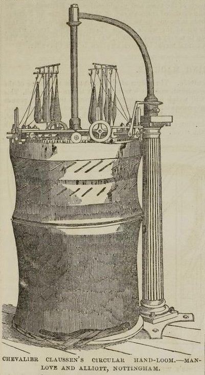 Chevalier Claussen's circular hand-loom - Manlove and Alliott, Nottingham